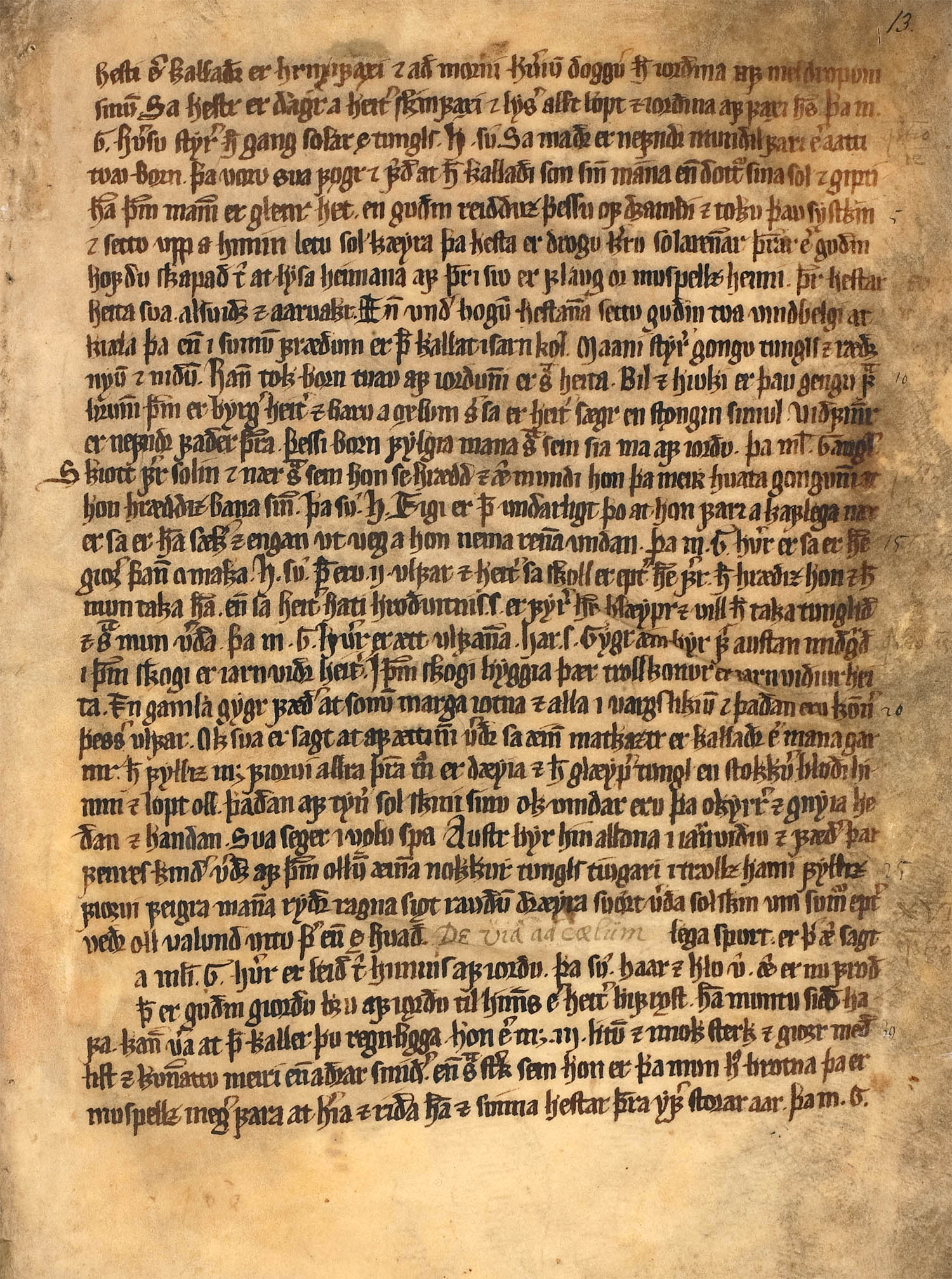 A page from Codex Wormianus, or Codex Norwegicus, a copy of the saga manuscript Jǫfraskinna (AM 242 fol, bl. 13r).